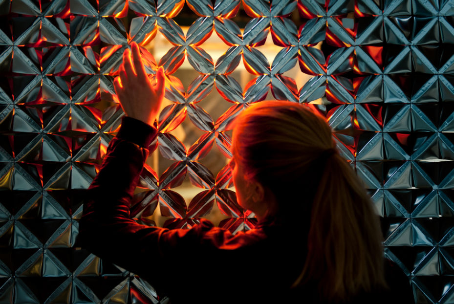 Roosegaarde's interactive installation made out of aluminium foils that fold open upon interaction with humans. Lotus 7.0